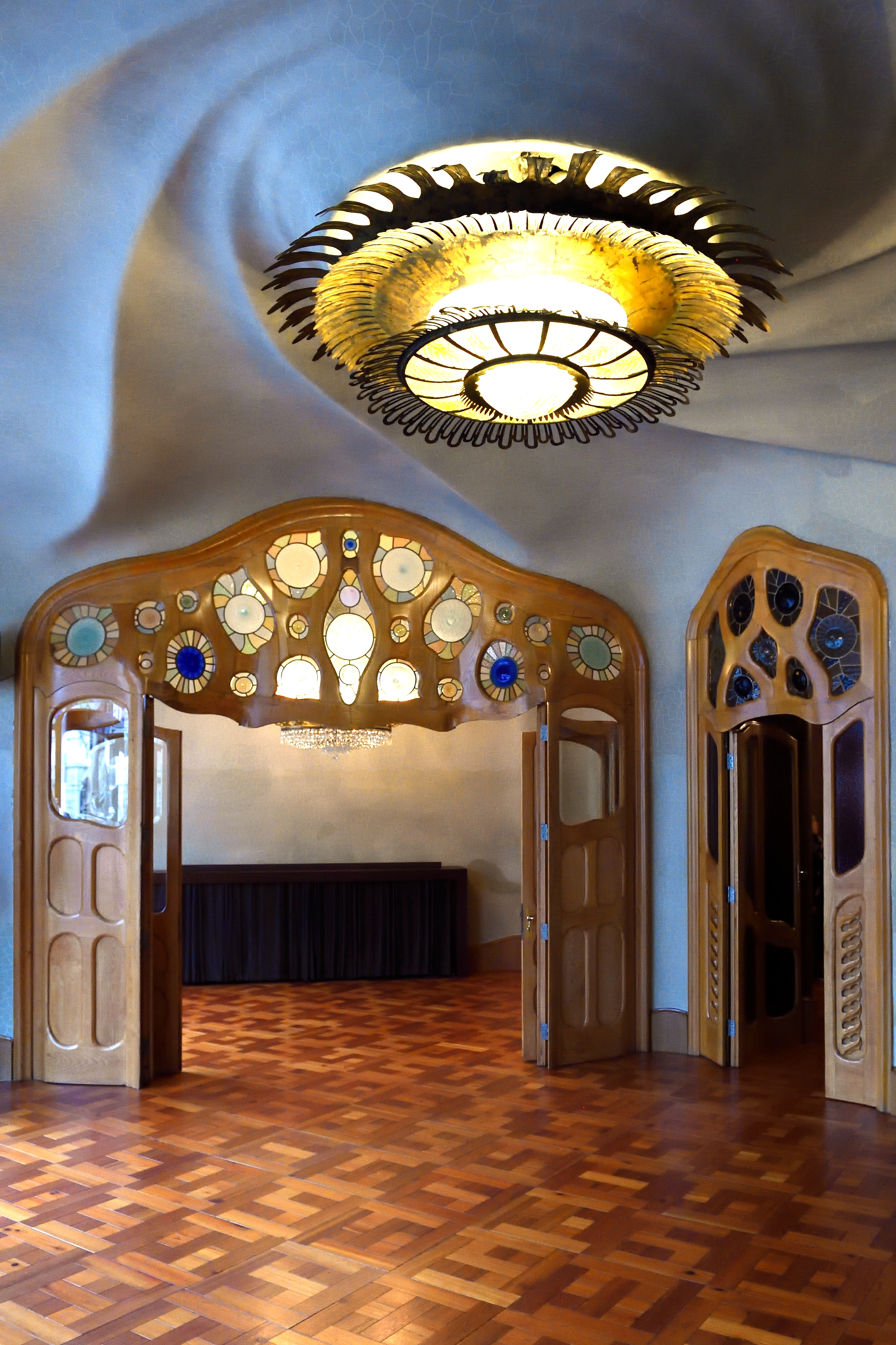 Interior of Casa Batlló in Barcelona, Spain, photographed in January, 2015